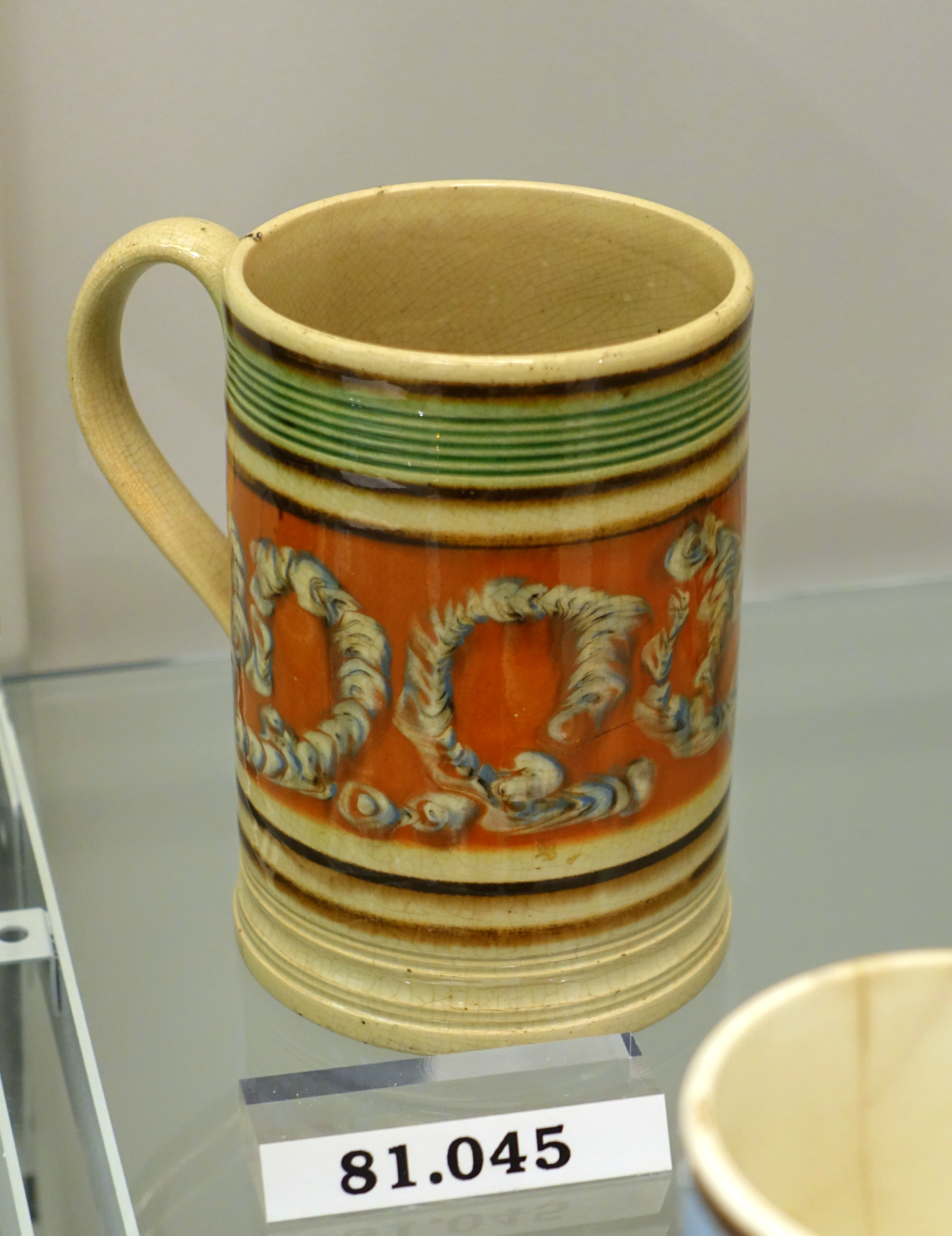 Exhibit in the Flynt Center of Early New England Life, Historic Deerfield - Deerfield, Massachusetts, USA.